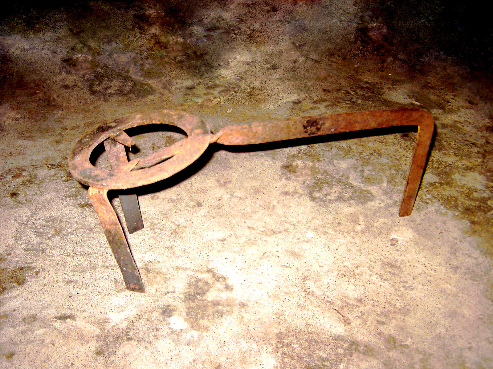 Old iron trivet. Aragonés: Estreudes de fierro.